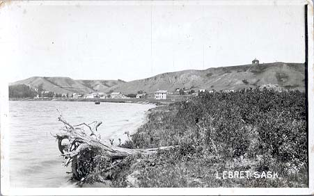 Lebret, Sask. Winnipeg. Lyall Commercial Photo Ltd. 1921